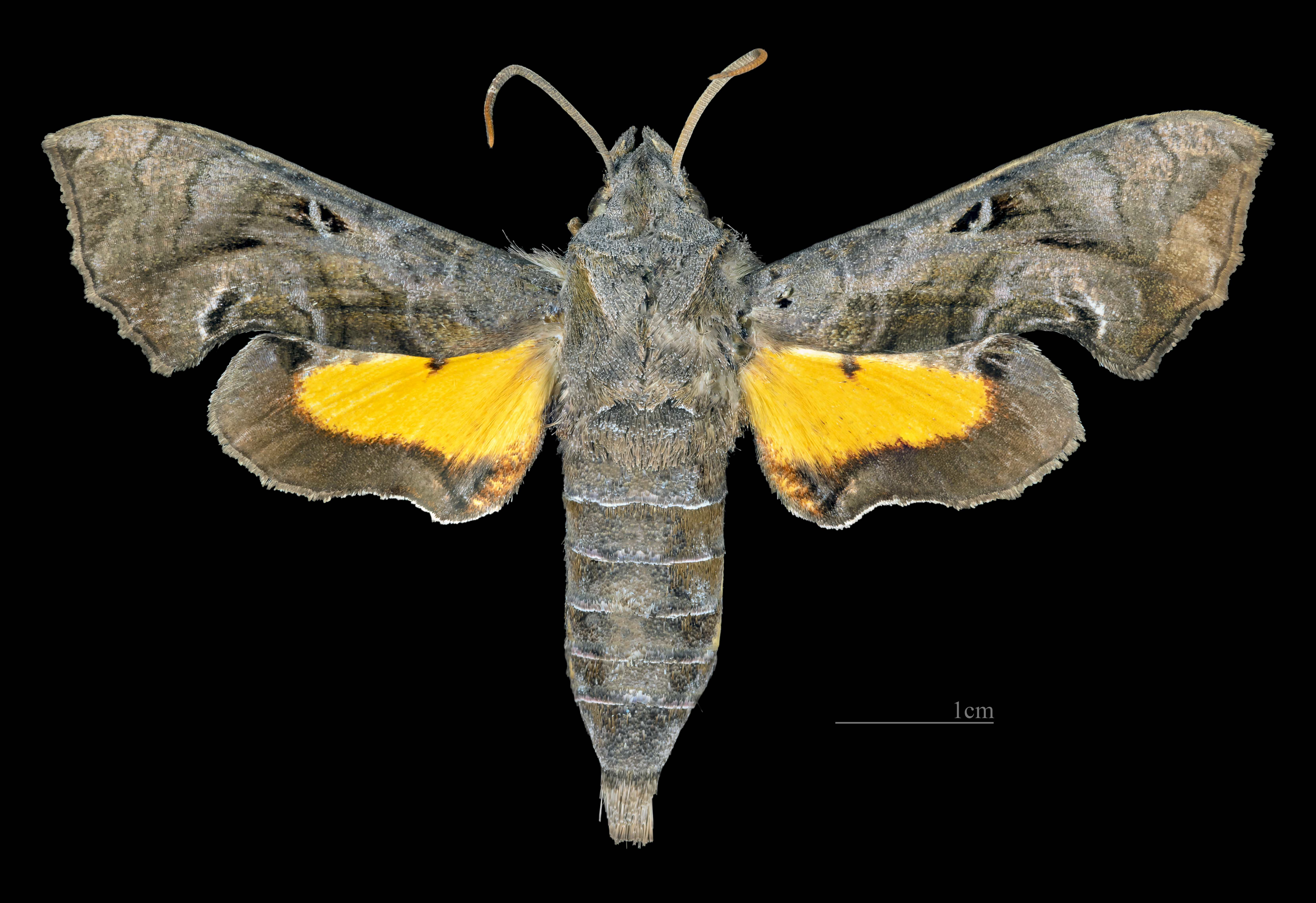 Neogurelca hyas - Dorsal side Collection of the Mathematician Laurent Schwartz